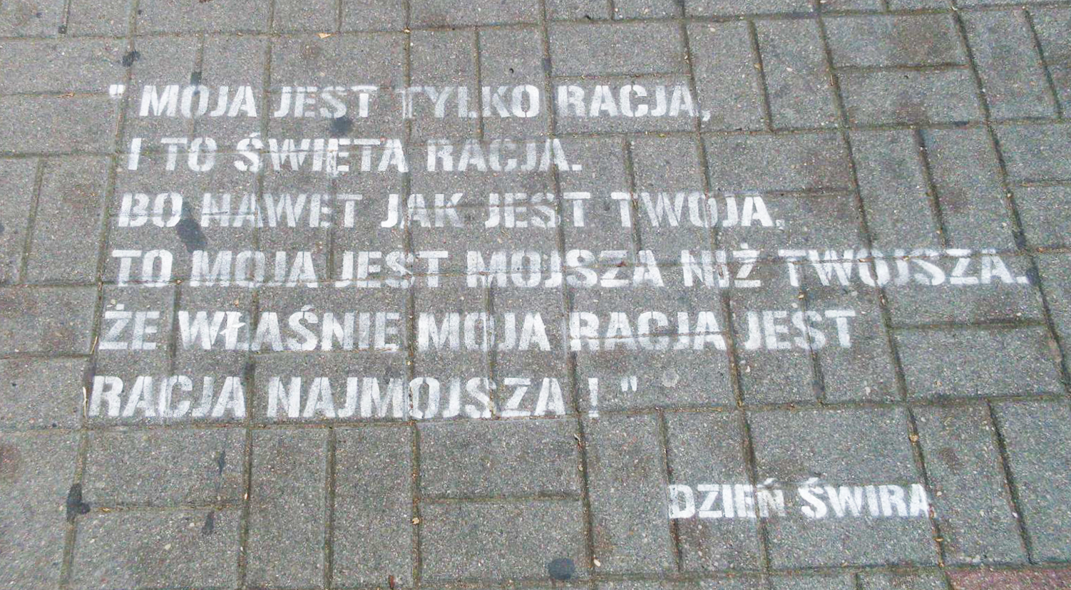 Quotation from polish film "Day of Nut". Painting at pavement 10 Lutego Street in Gdynia. Promote Polish Film Festival in Gdynia.